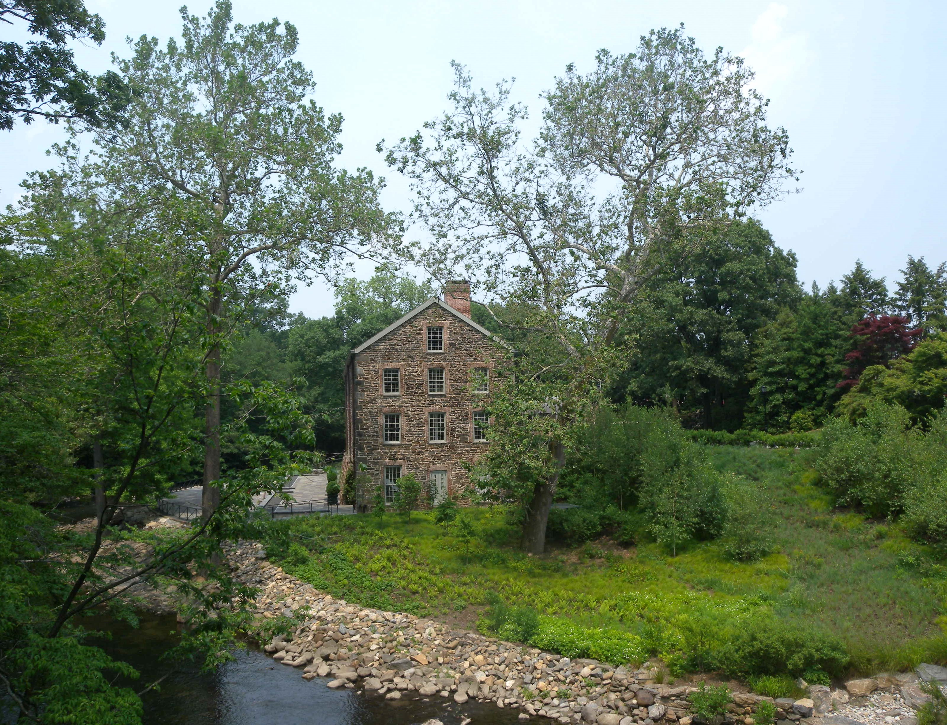 Looking north at mill on the left bank of the river on a hot hazy midday.